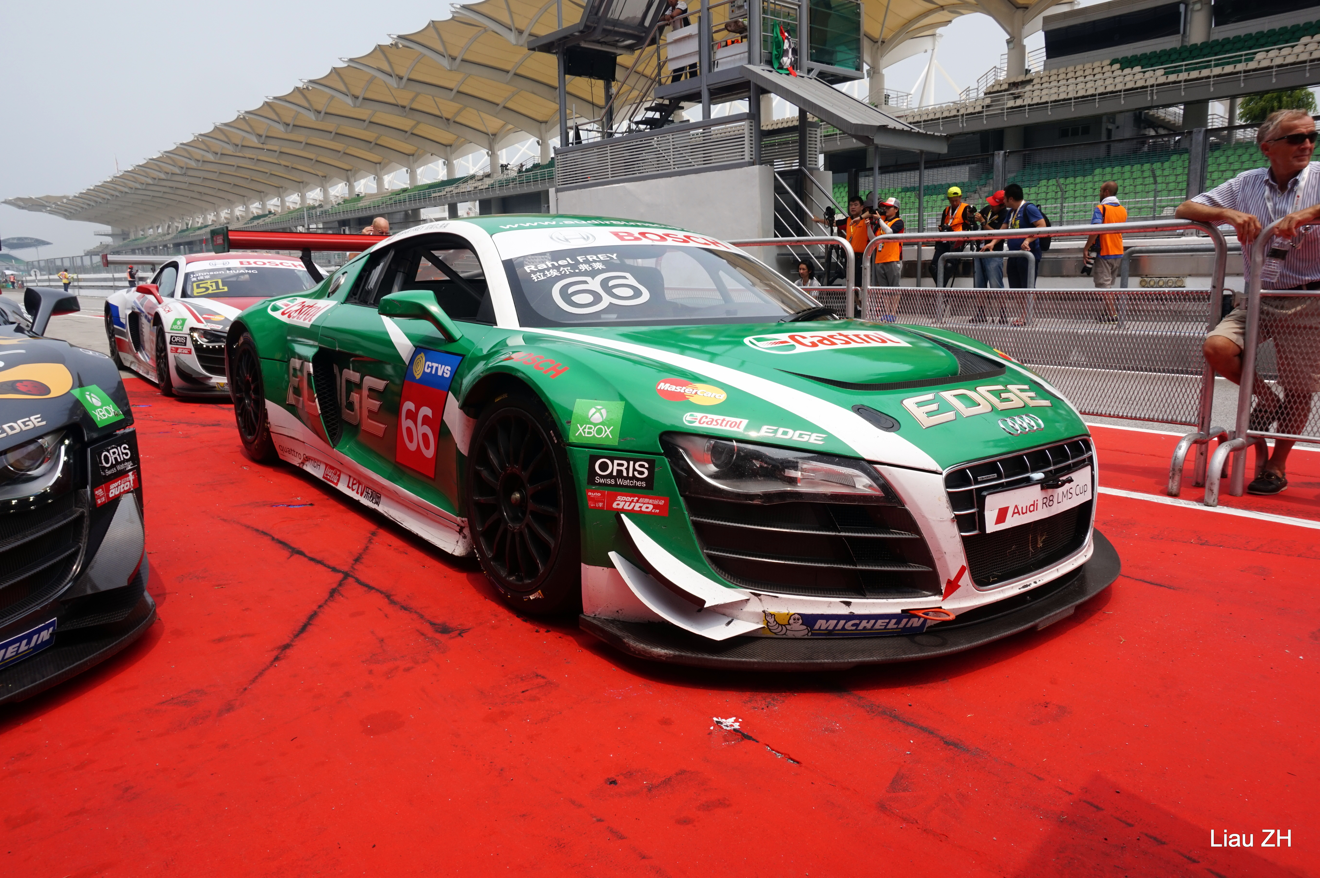 Audi R8 LMS Cup 1st Gen Car Rahel Frey's race car, Sepang, 2015